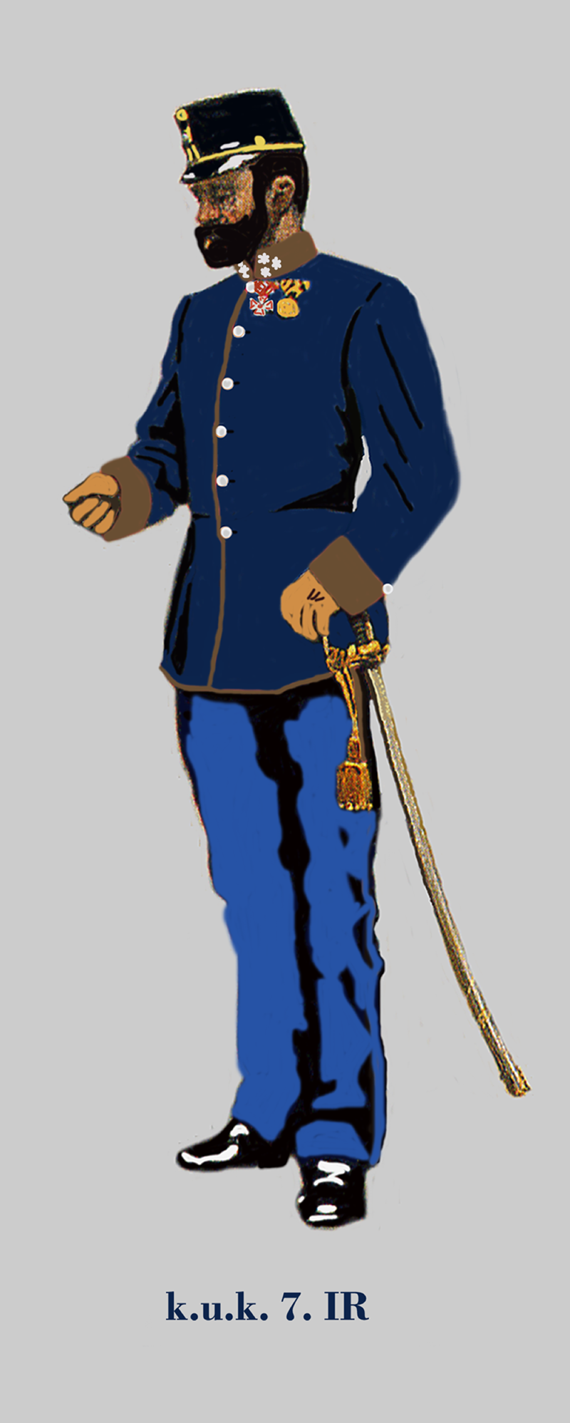 Lieutenant of the Austria-Hungarian (k.u.k.). 7th german Infantry Regiment in Service dress. (1914